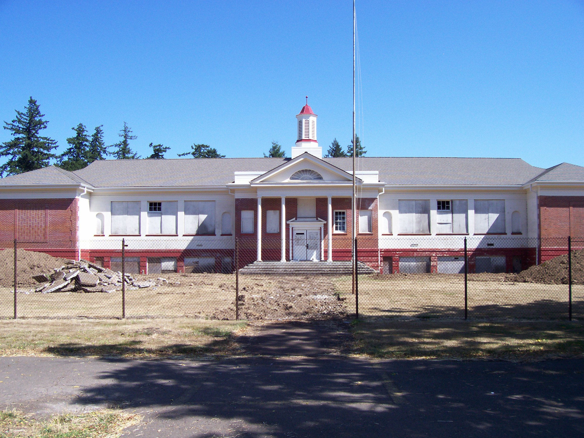 Childrens Farm Home School near Corvallis. Listed on the National Register of Historic Places.